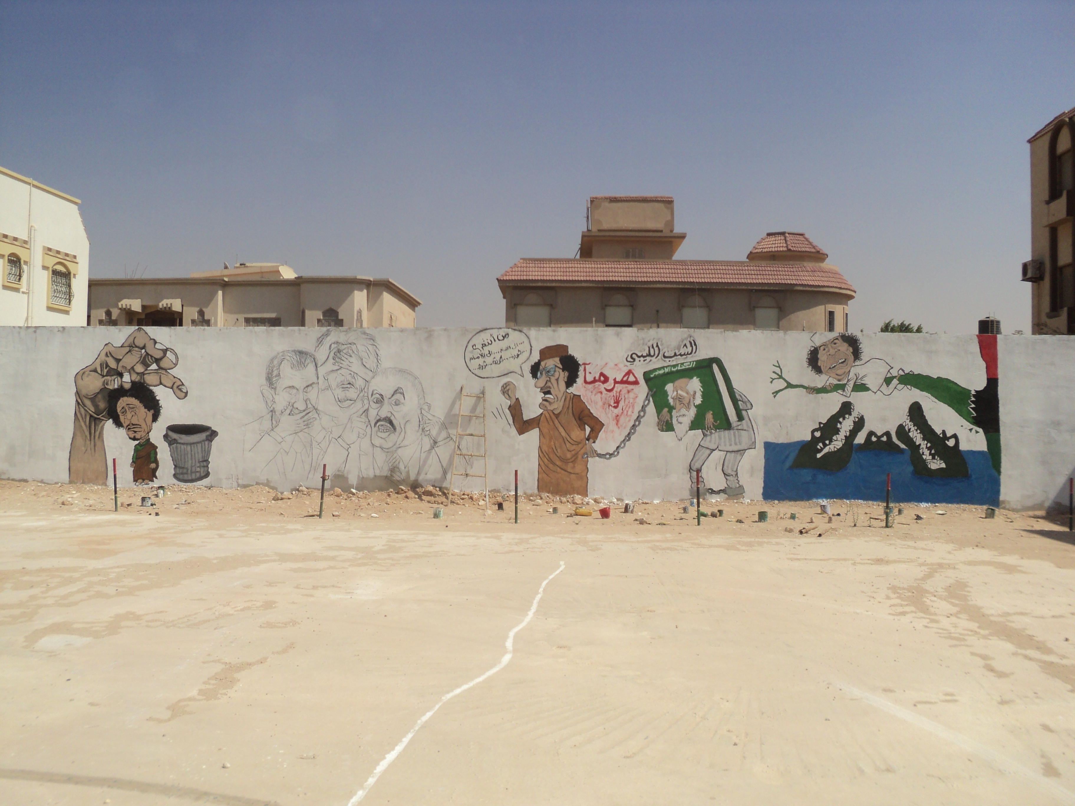 Caricatures of Gadafi in Taballino neighbourhood, Benghazi. In the second section from the right, the Libyan people are entangled by Gaddafi's green book and saying "We got old", and Gaddafi is saying "Who are you?!..forward...forward..revolution". In the third section from the right, the three are (right to left) Ali Abdullah Saleh of Yemen, Gadafi of Libya, Bashar al-Assad of Syria, as the three wise monkeys.